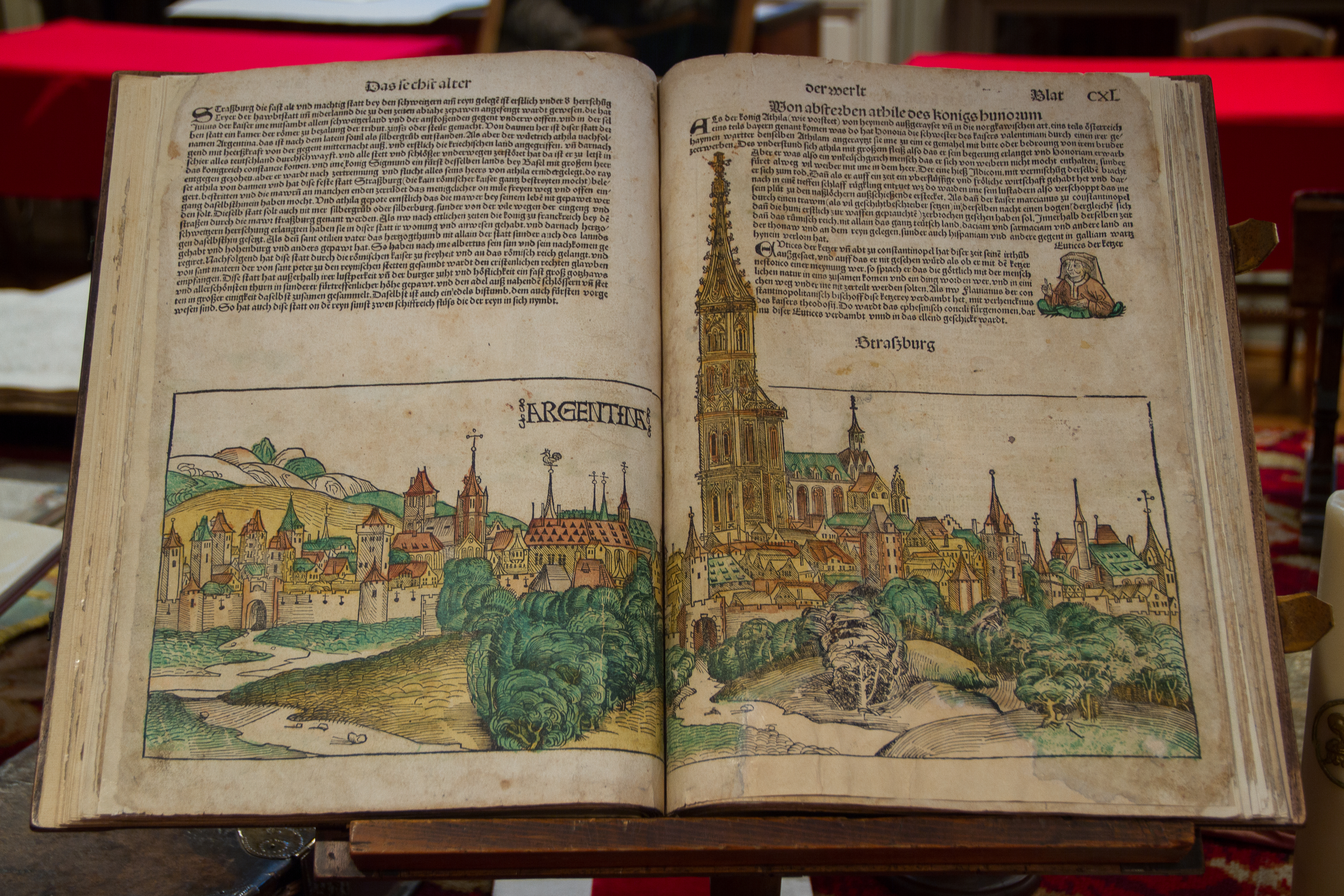 View of Strasbourg (Argentina) in the Nuremberg Chronicle by Hartmann Schedel. Library of the of catholic seminary of Strasbourg. Librarian Louis Schlaefli.